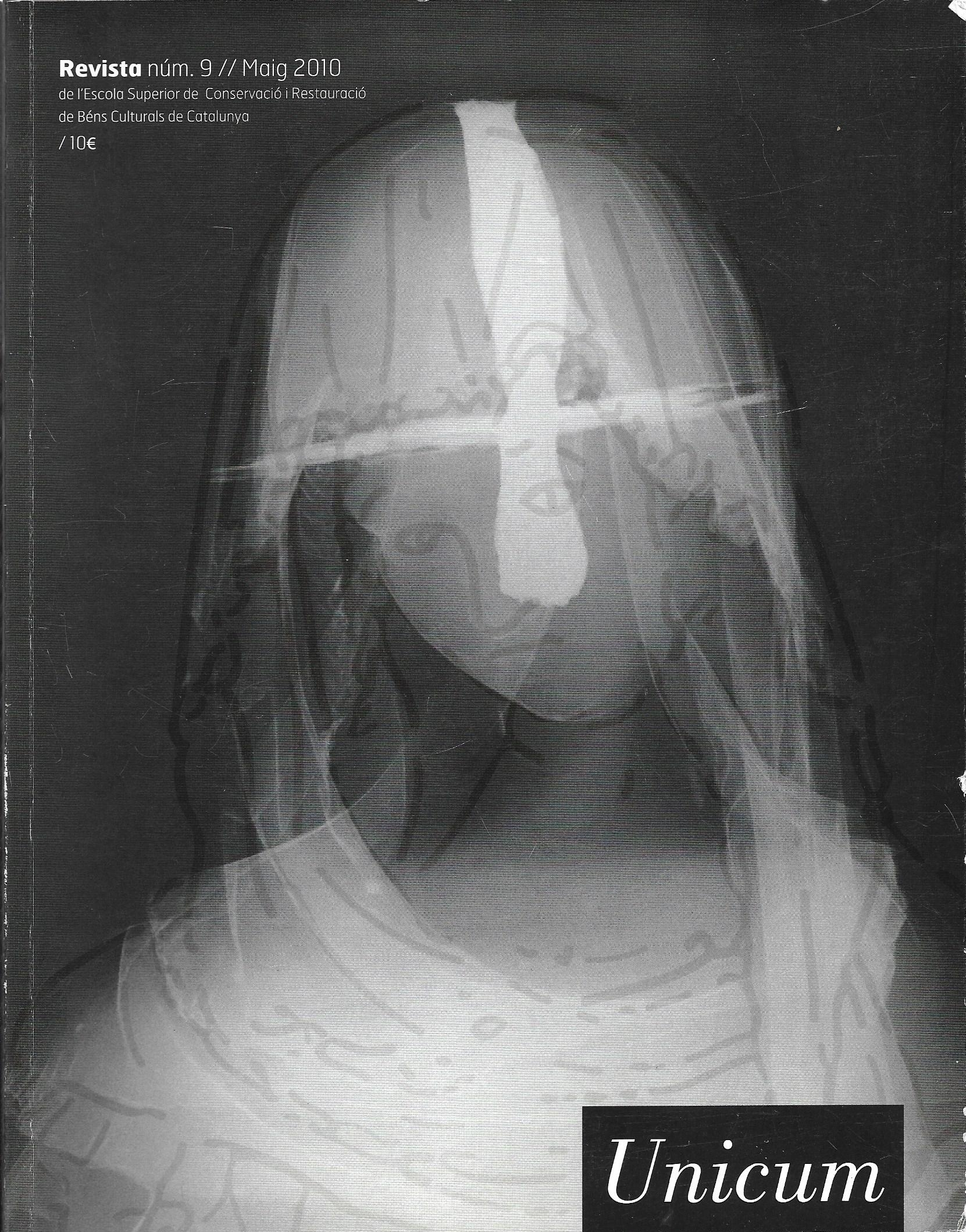 Cover of the issue number 9 (year 2010) of "Unicum", Magazine published in Barcelona by Escola Superior de Conservació i Restauració de Béns Culturals de Catalunya ESCRBCC